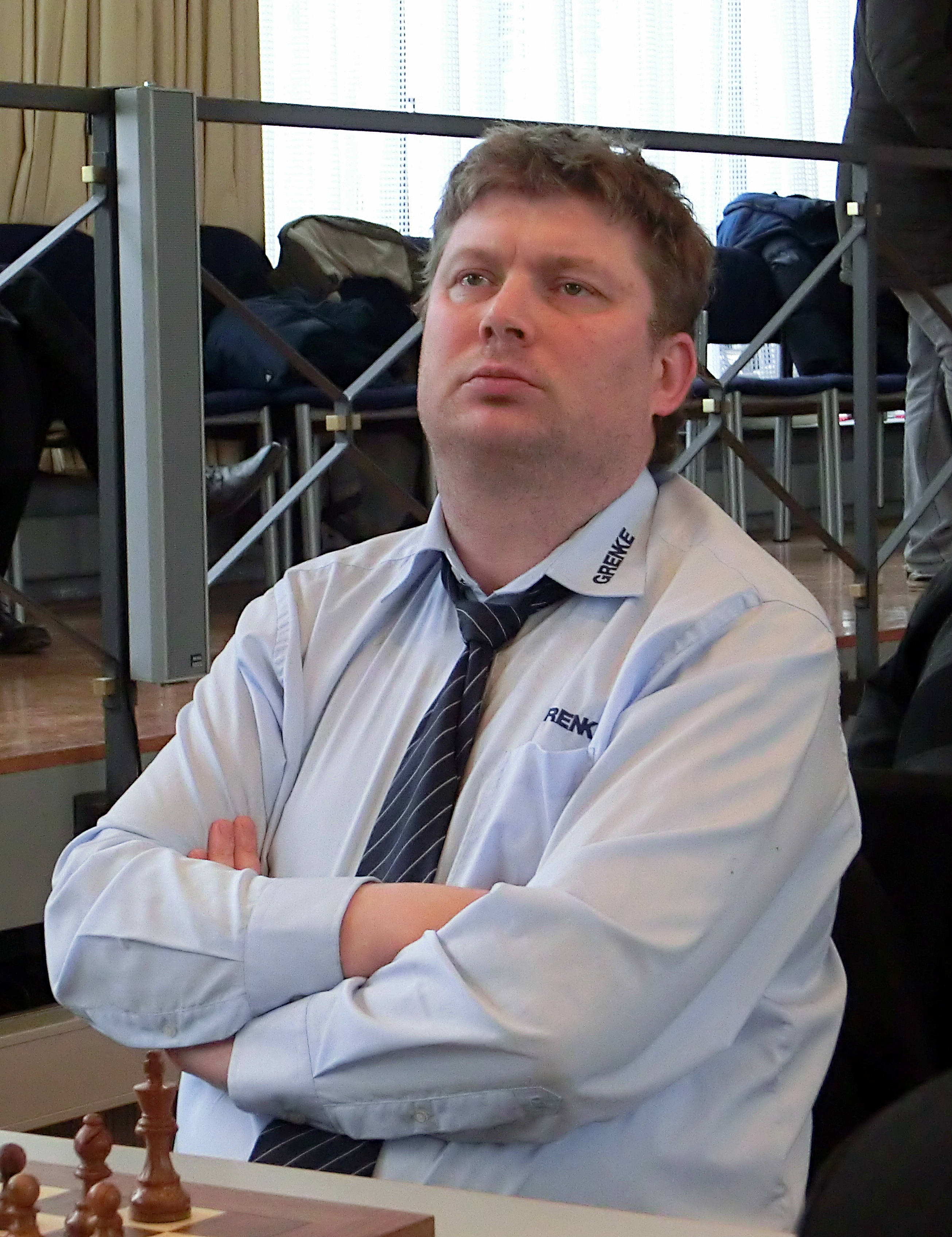 Alexei Shirov, chess grandmaster from Latvia